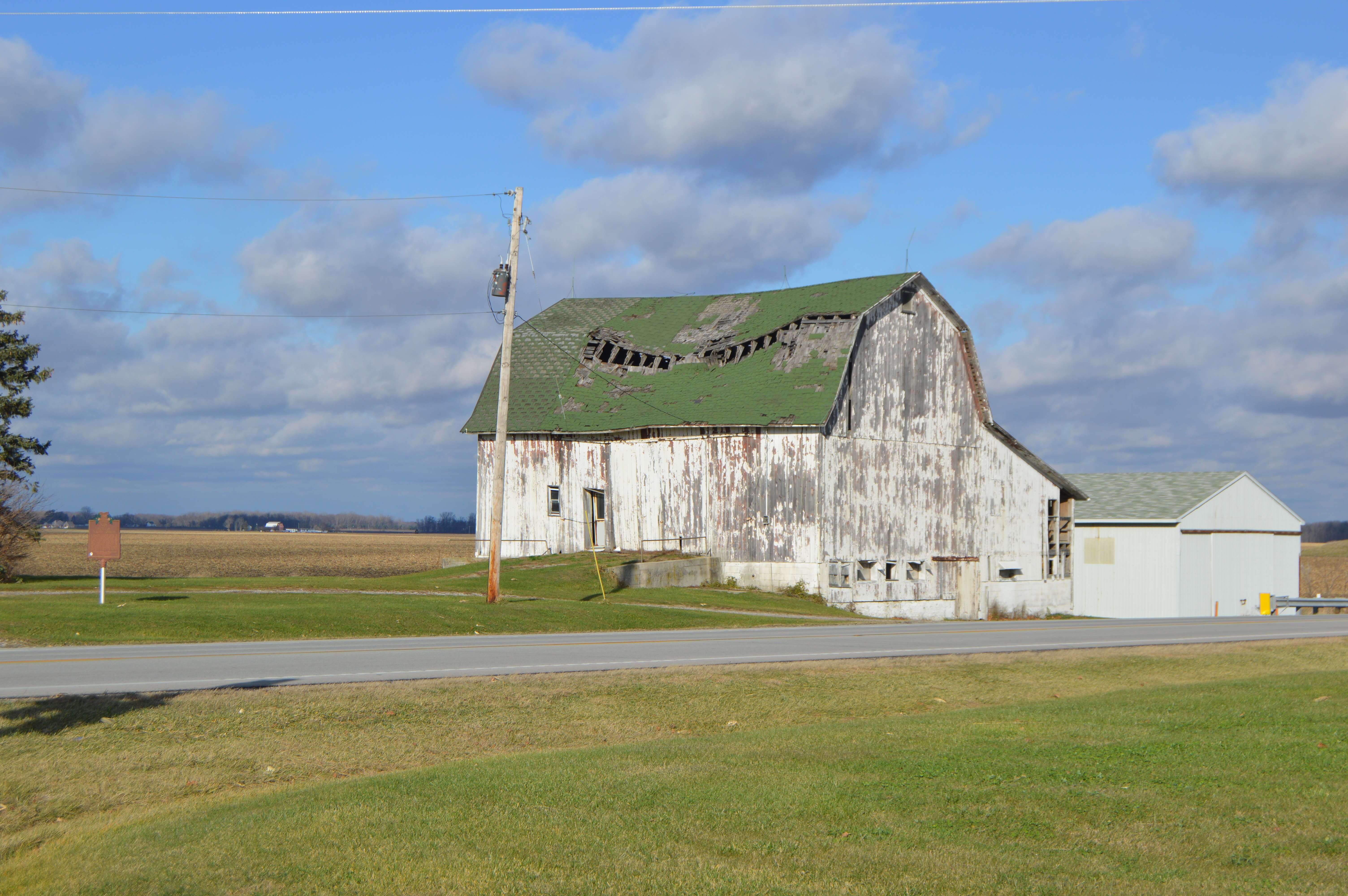 Overview of the site of the Battle of Phillips Corners at the junction of State Routes 109 and 120, just east of Lyons, in Royalton Township, Fulton County, Ohio, United States. During the Toledo War, this spot witnessed the incident that came closest to bloodshed. A historical marker at far left commemorates the event.